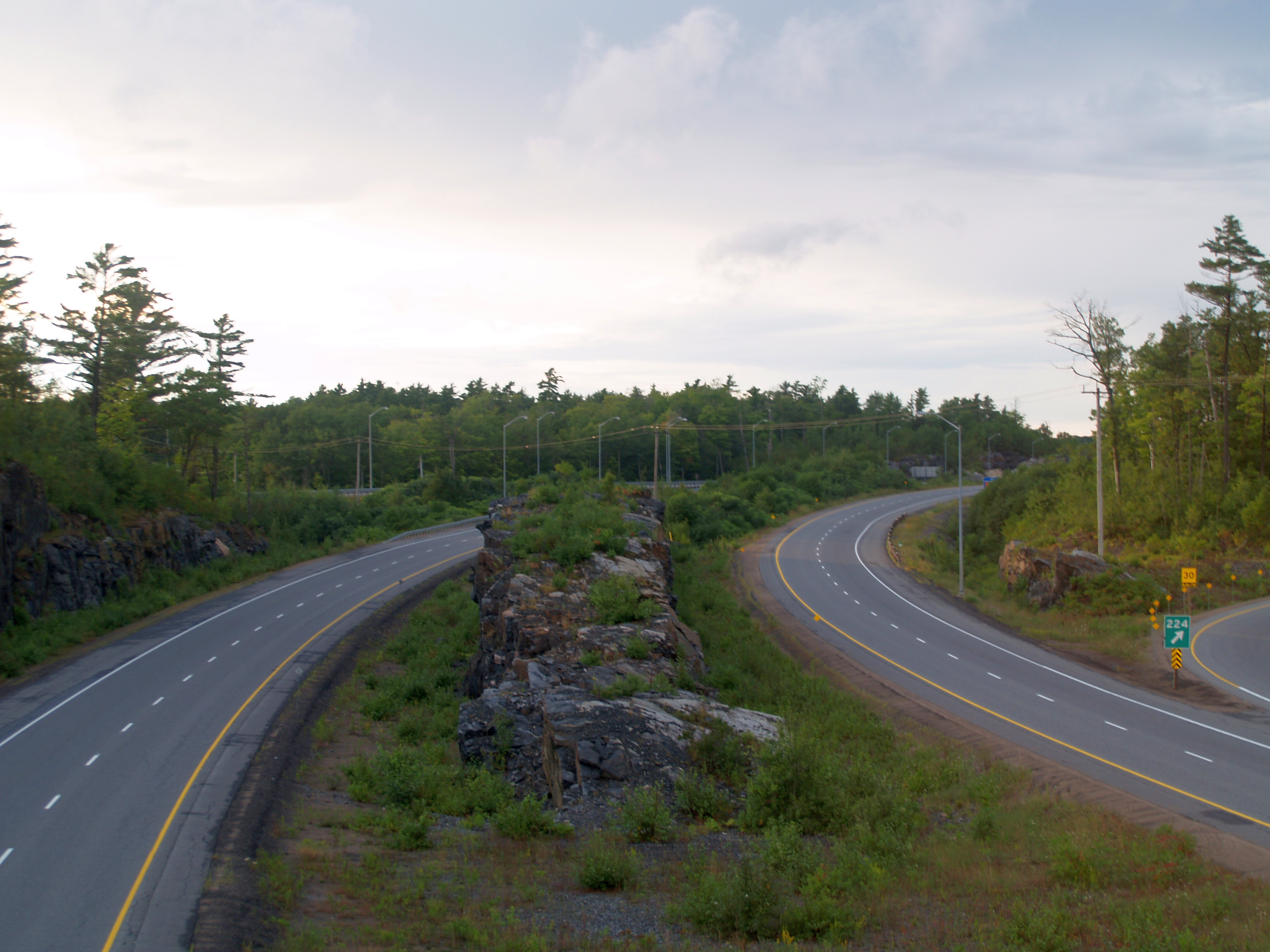 Highway 400 facing north from within Parry Sound. This 10 km section of Highway 400 south of and through Parry Sound features interesting and massive rock cuts, some longer than a kilometre in length and several storeys high. This section also features several median rock walls that were left in place during blasting, as in this photo.